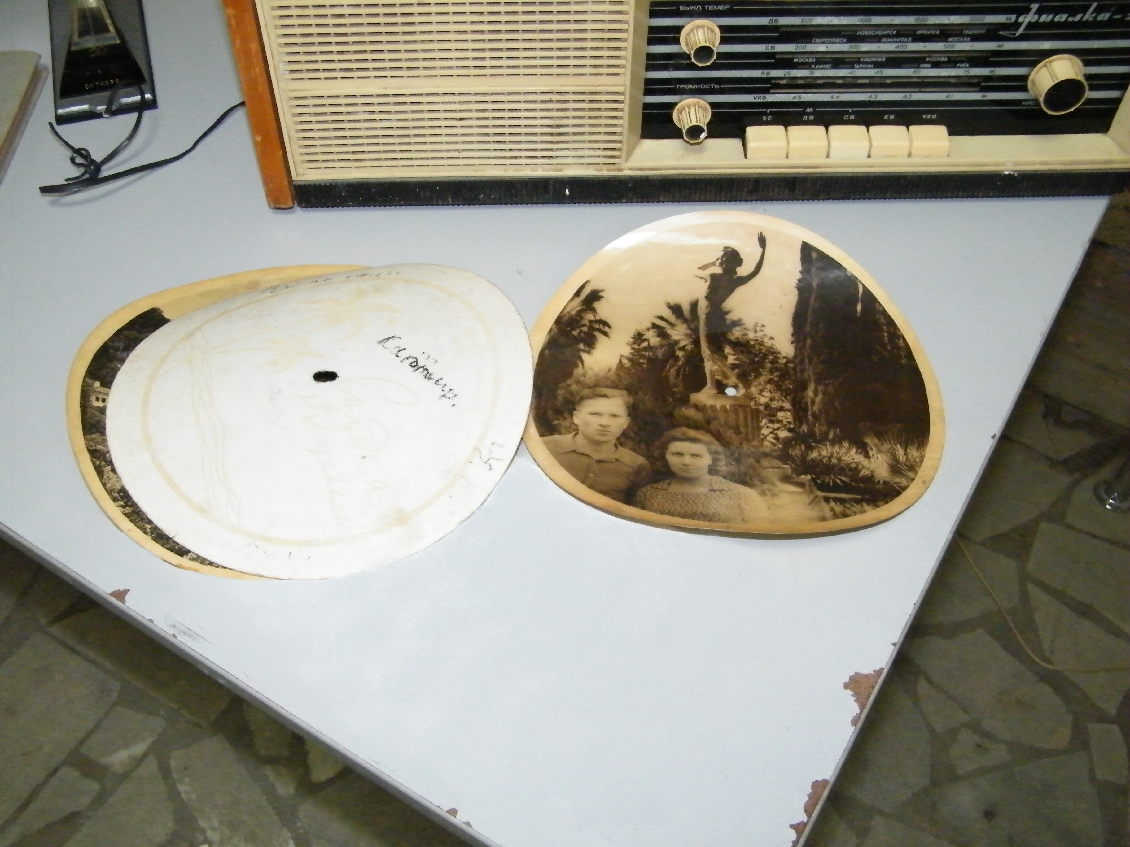 "Sound souvenirs", photo with gram record. USSR, probably 1950s - 1960s